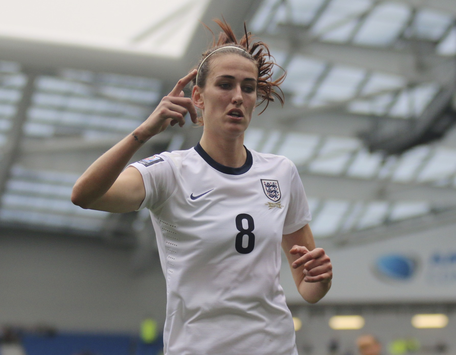 Jill Scott of England